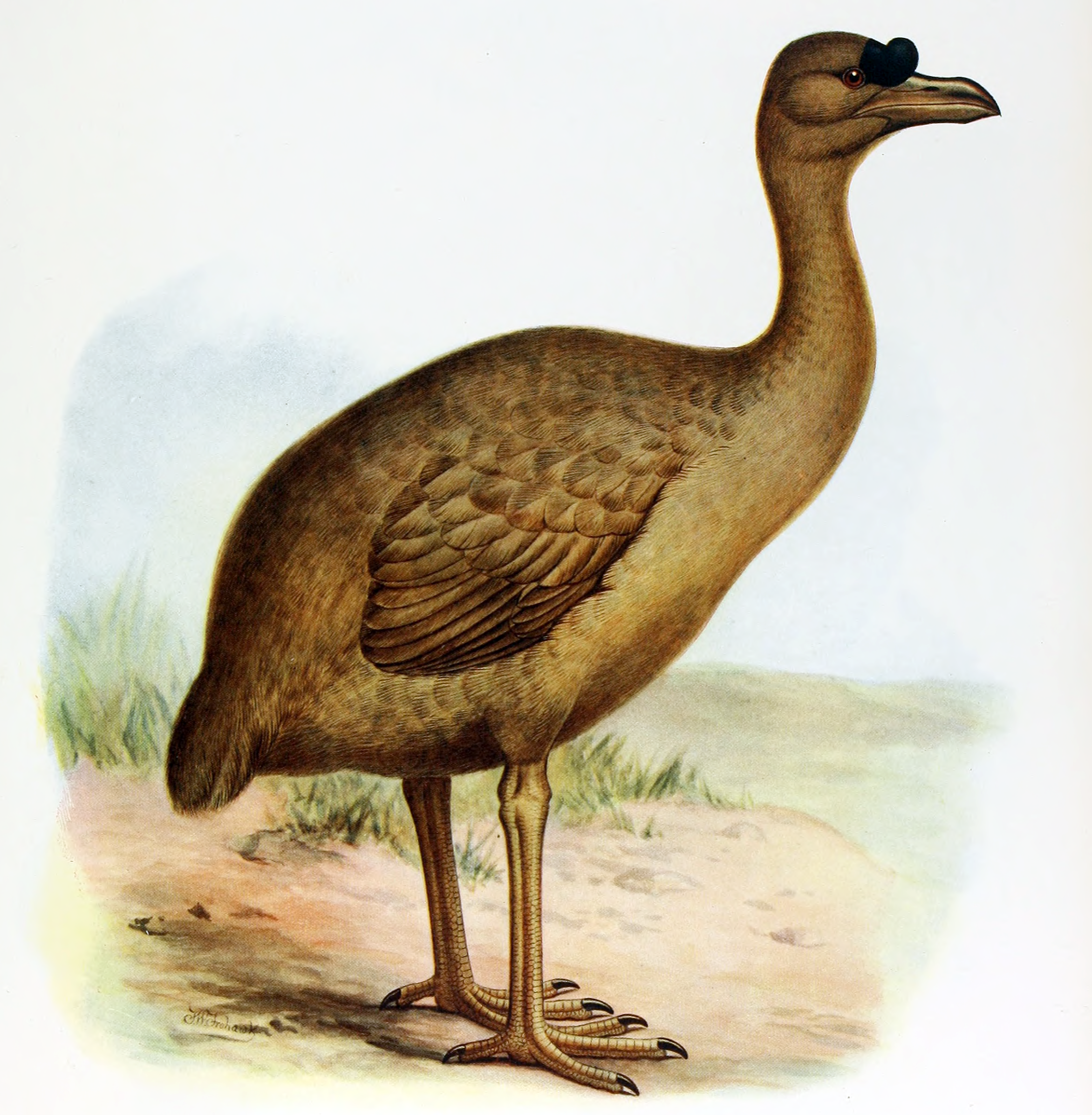 The Rodrigues Solitaire (Pezophaps solitaria) was a flightless member of the pigeon order endemic to Rodrigues. It was a close relative of the Dodo. About One-Third Natural Size—from descriptions and drawings.